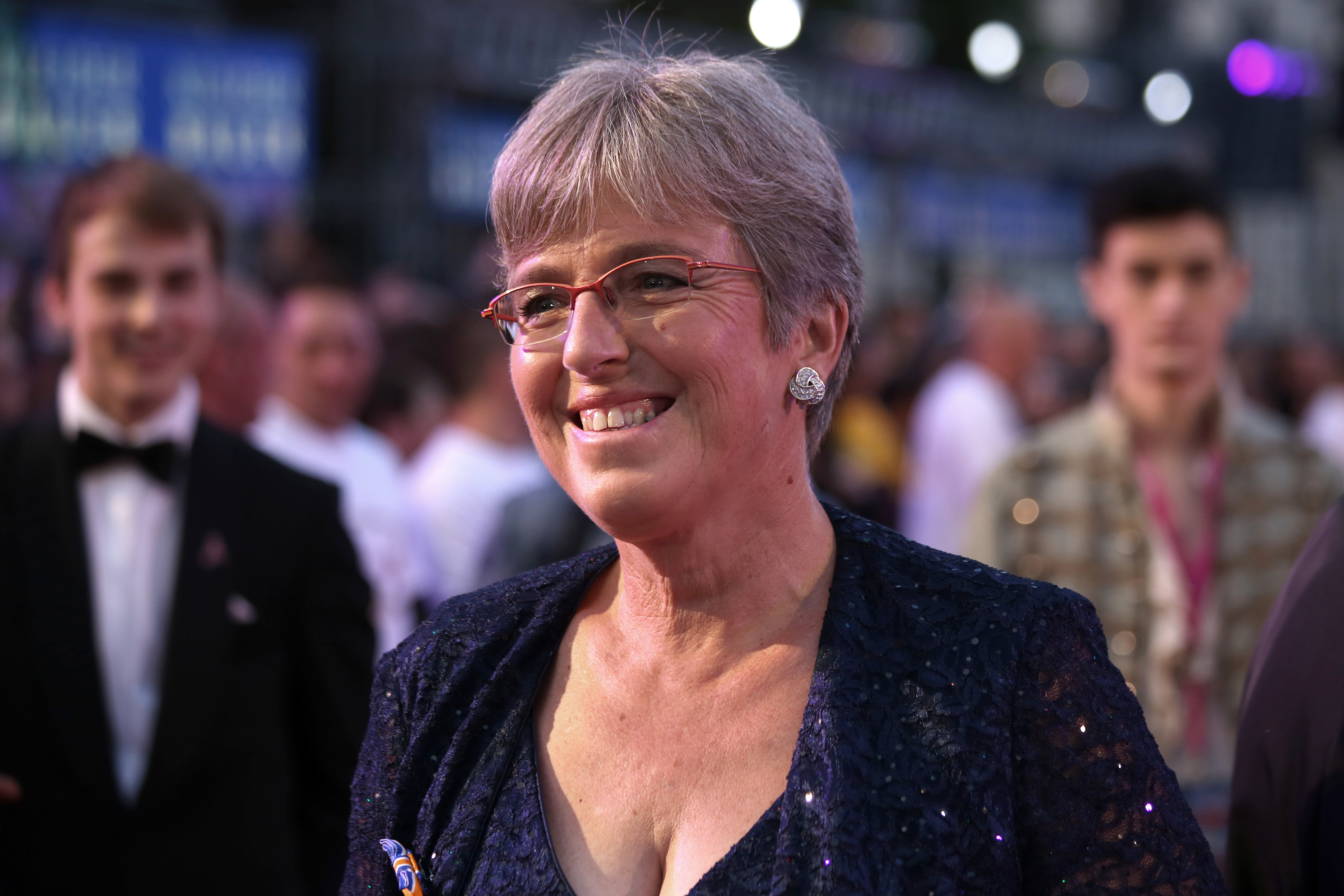 Life Ball 2014: Alie Eleveld on the red carpet on the square in front of the Rathaus (Town Hall) of Vienna, Austria.